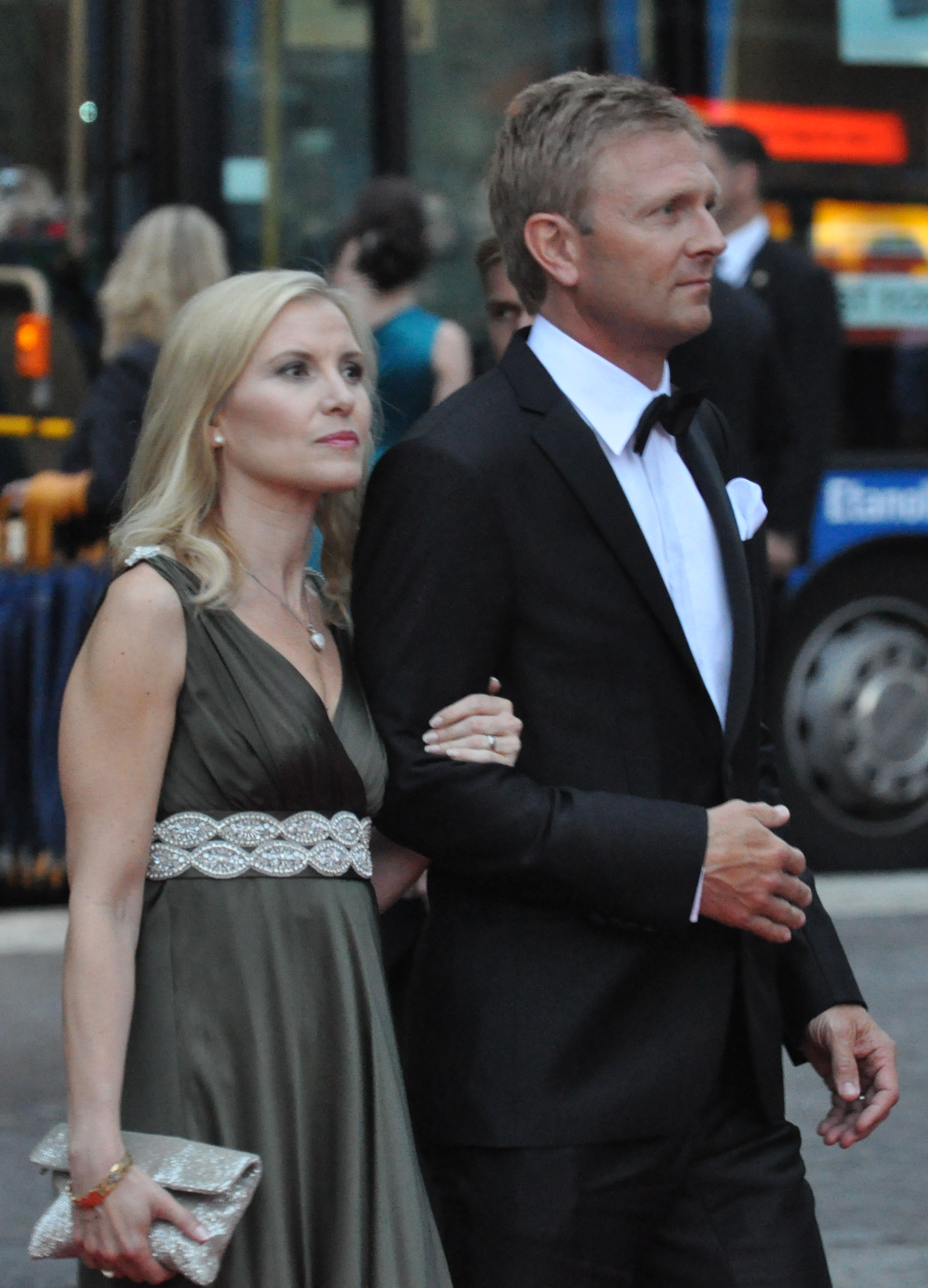 Wedding of Victoria, Crown Princess of Sweden, and Daniel Westling; Arrival of members for the Gouvernment and Swedish and foreign guests of hounour to the Riksdag's Gala Performance at Konserthuset